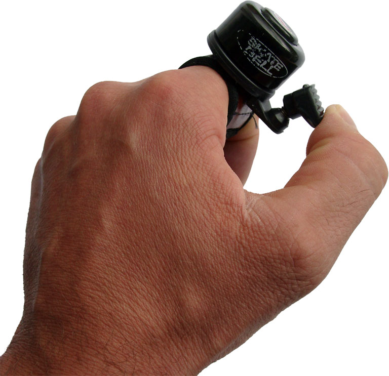 Bike bell